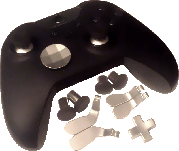 A medium-definition screenshot of the Xbox One Elite wireless controller, taken under yellow light and slightly edited to copy the real looks of the physical controller.